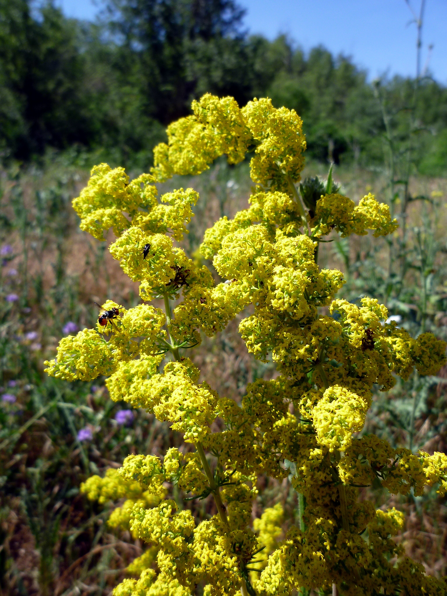 Galium verum. In Torà (Segarra- Catalunya). On 570 m. altitude